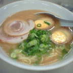 Okayamara-men